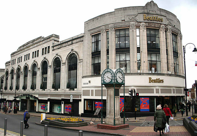 Beatties Building, Victoria Street, Wolverhampton